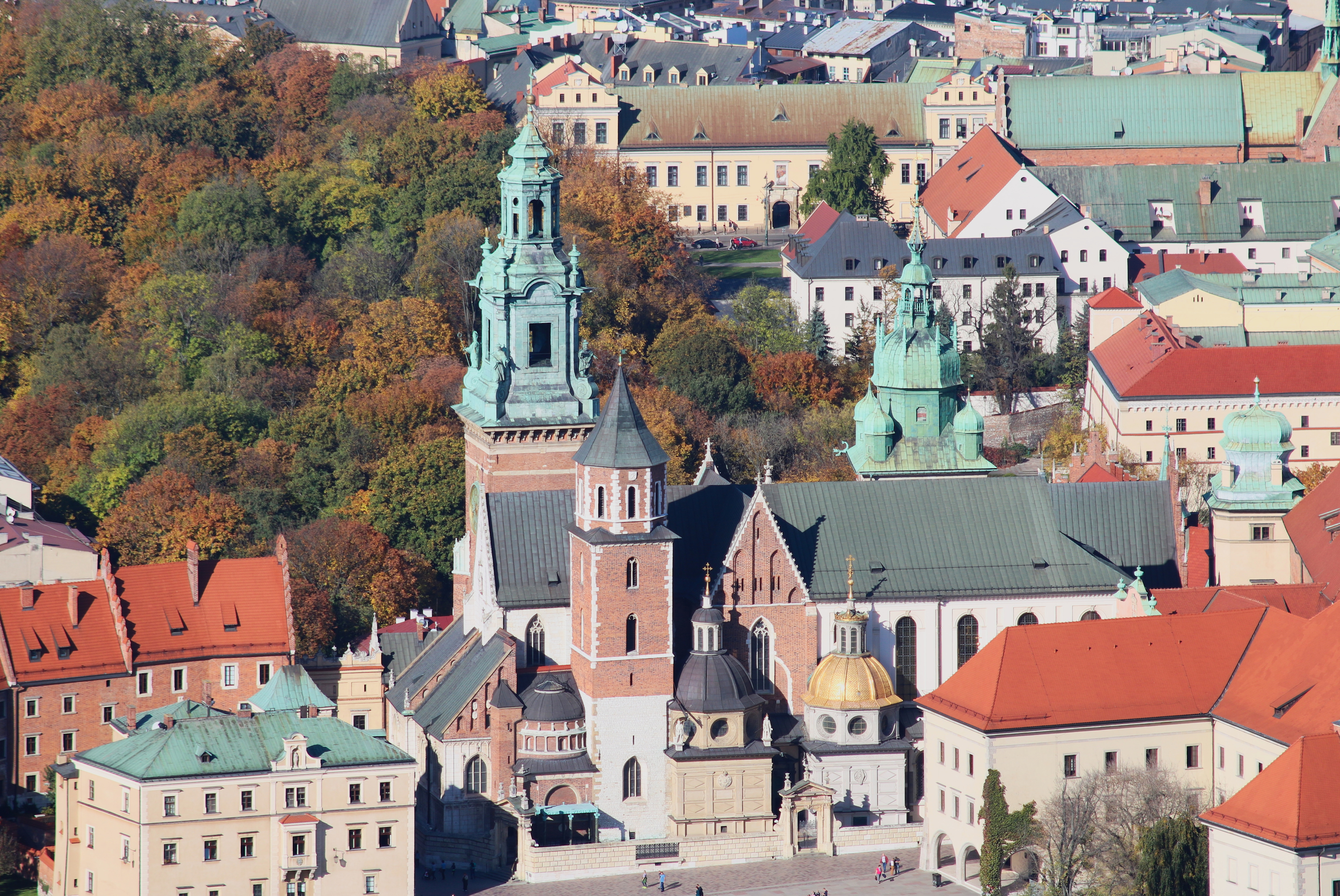 Krakow - Wawel Cathedral from captive balloon